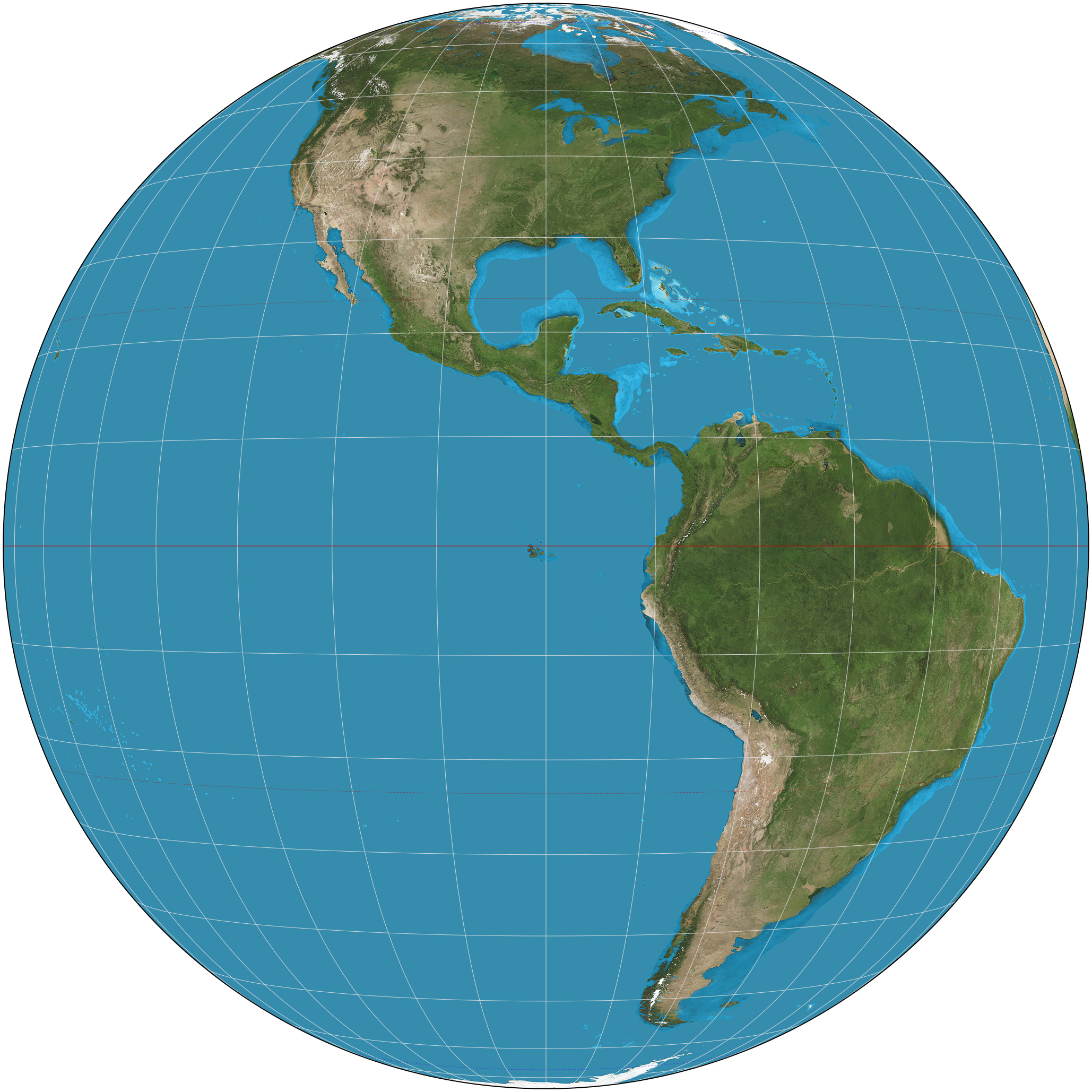 Western hemisphere on vertical perspective projection from an altitude of 35,786 km, correspoinding to a view from geosynchronous orbit. 10° graticule. Imagery is a derivative of NASA’s Blue Marble summer month composite with oceans lightened to enhance legibility and contrast. Image created with the Geocart map projection software.